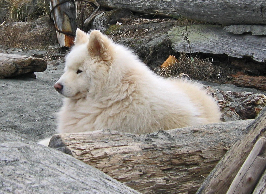 Samoyed male in Sequim, Washington, USA